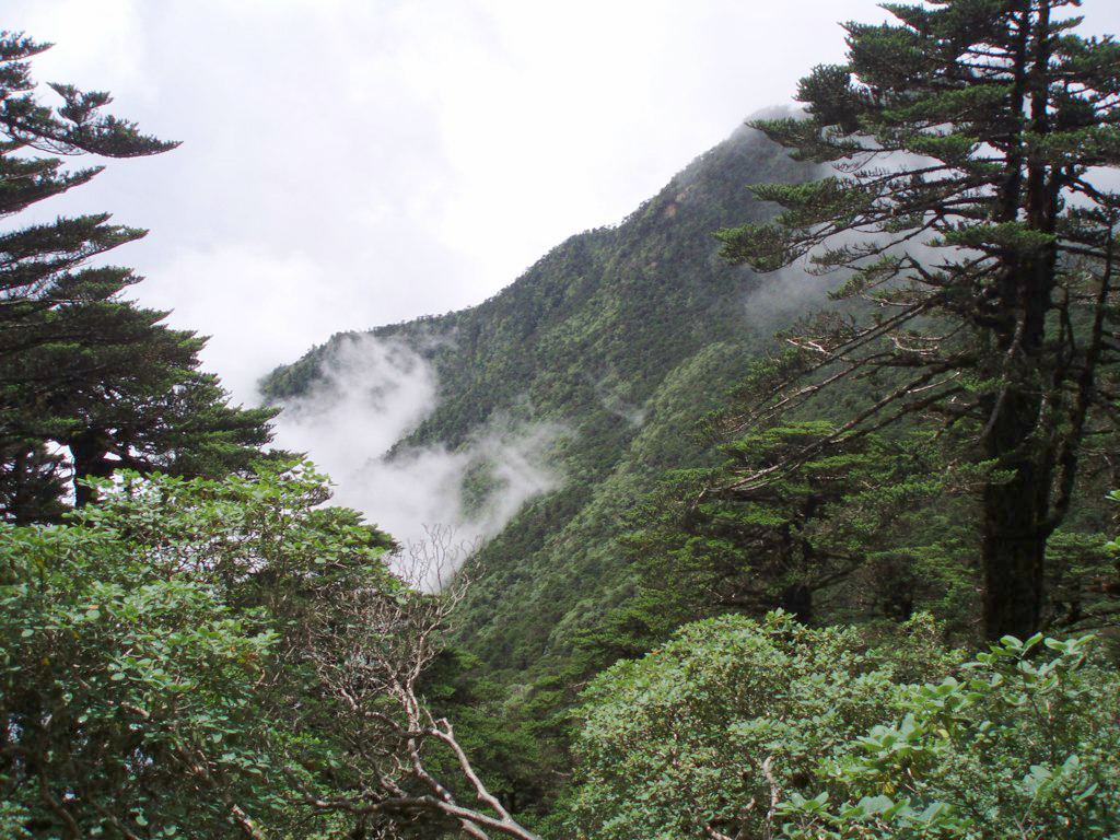 Abies delavayi with Rhododendron spp. in foreground, Cangshan, Dali, Yunnan, China